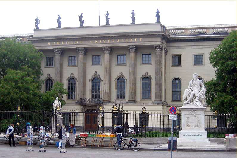 The Humboldt university in Berlin